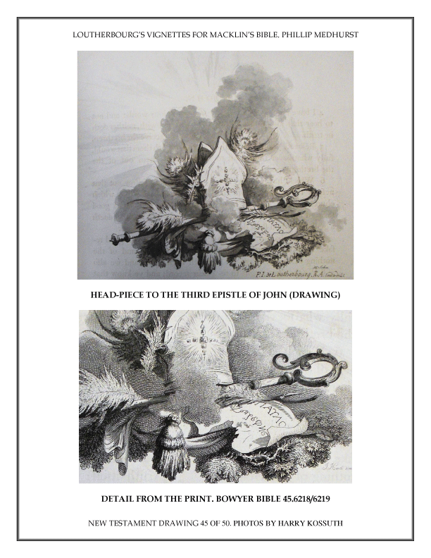 Head-piece to the third epistle of John, vignette with bishop's hat and staff on pillow with scroll and feathers, letterpress in two columns below. . c.1790-1800. Inscriptions: Lettered below head-piece with production detail: "P J de Loutherbourg delt. et invt.", "J Heath direx" and publication line: "Pubd by T Macklin, Fleet Street London". Print made by James Heath. Dimensions: height: 490 millimetres (sheet); width: 390 millimetres (sheet).